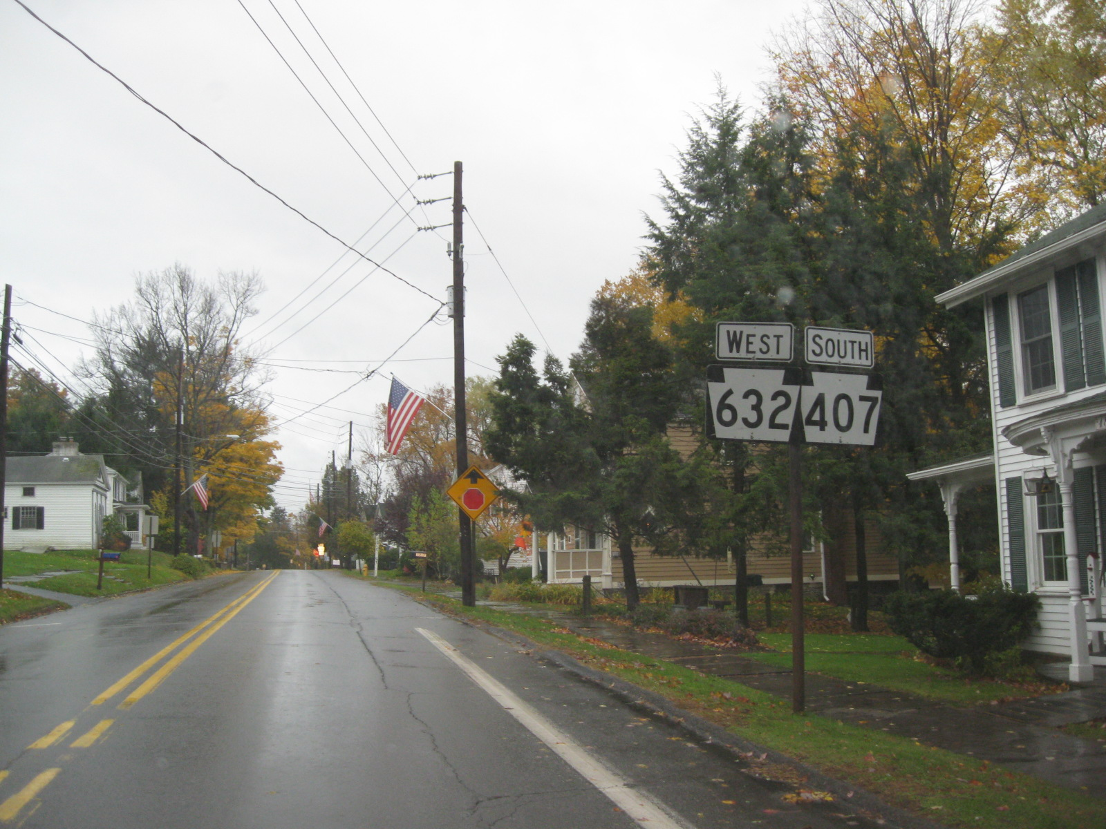 Pennsylvania State Route 632 westbound along its concurrency with Pennsylvania State Route 407 in Waverly.